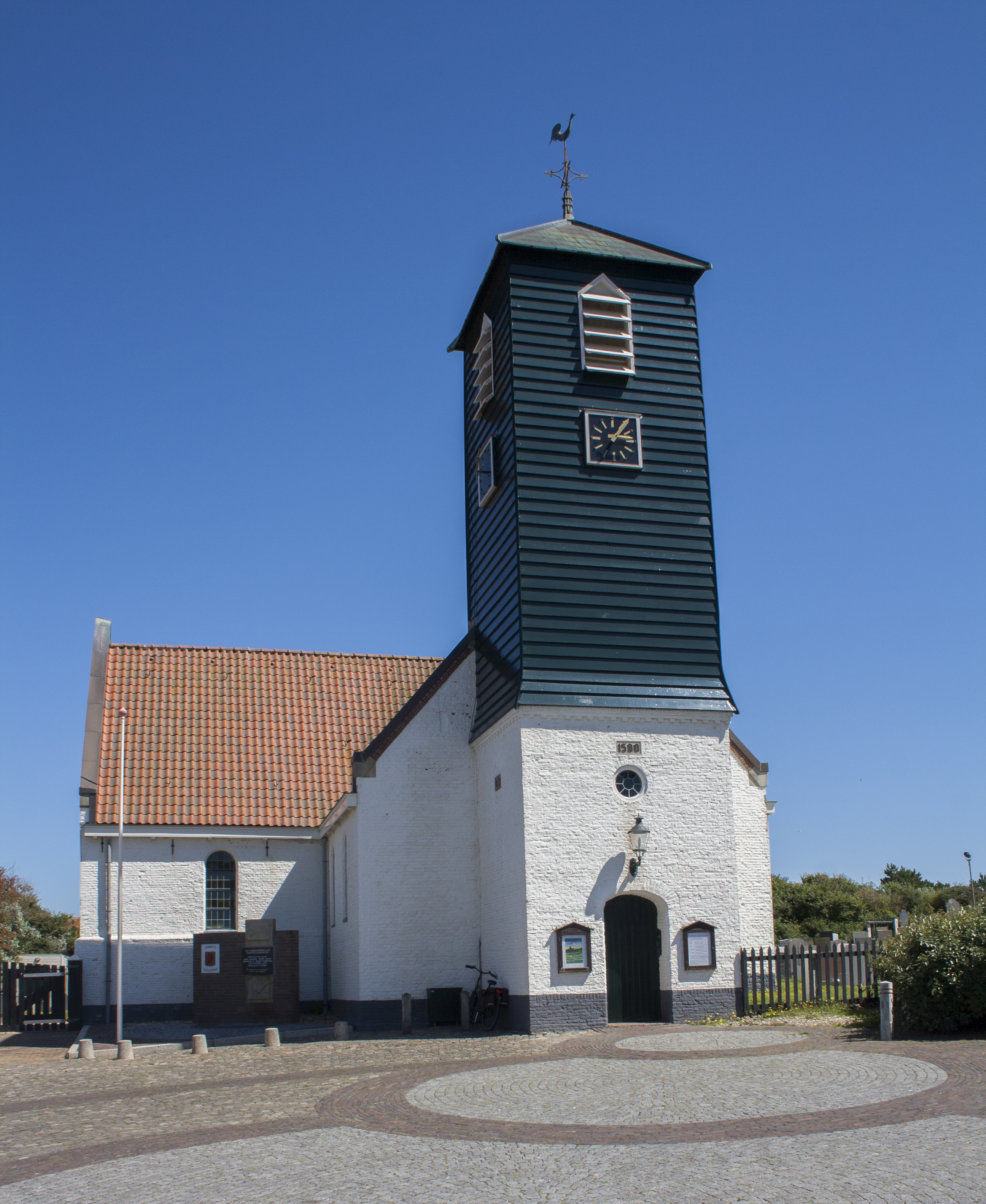 Church of Callantsoog